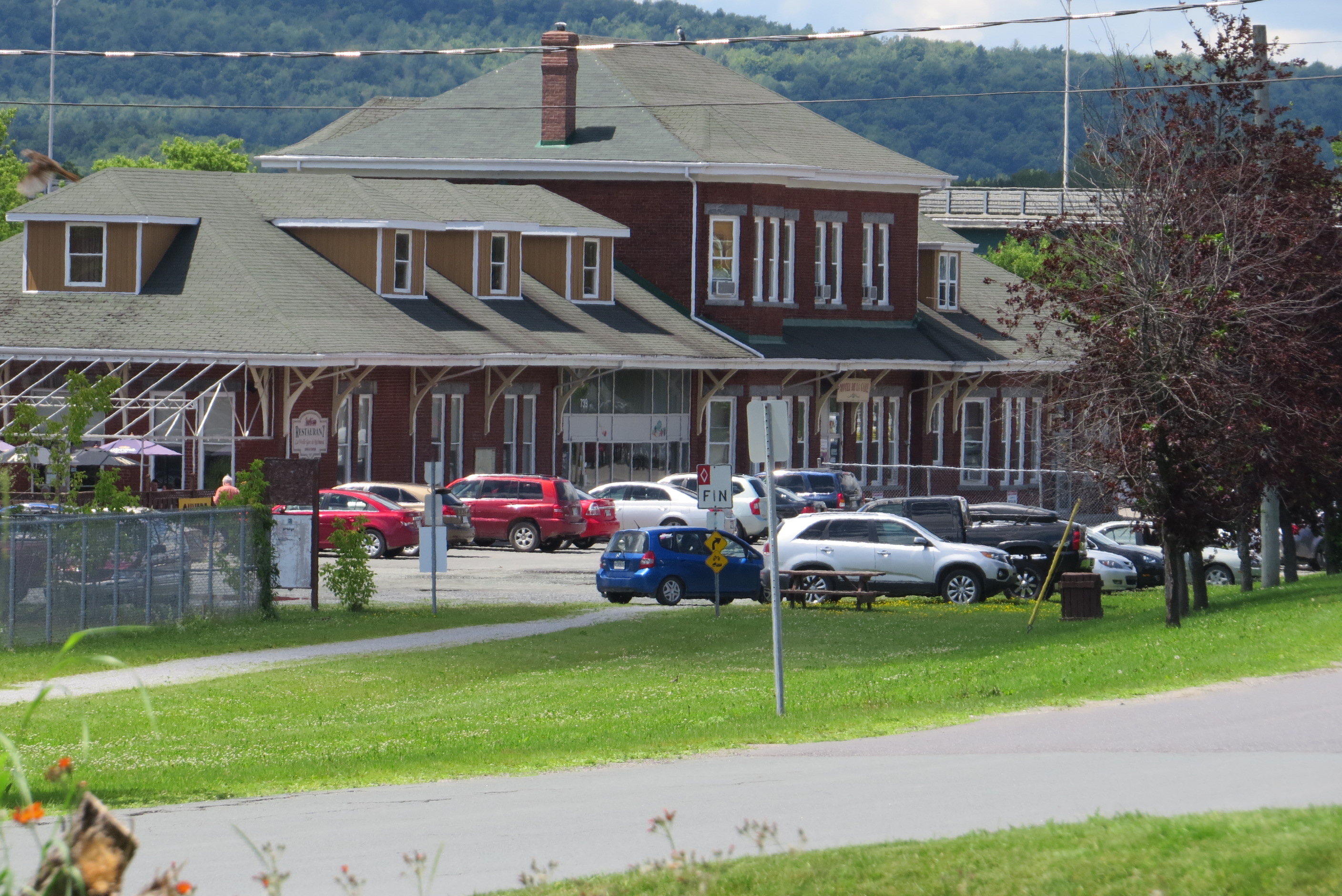 La Vieille Gare de Richmond restaurant in the converted old Grand Trunk Railway station in Richmond, Quebec.